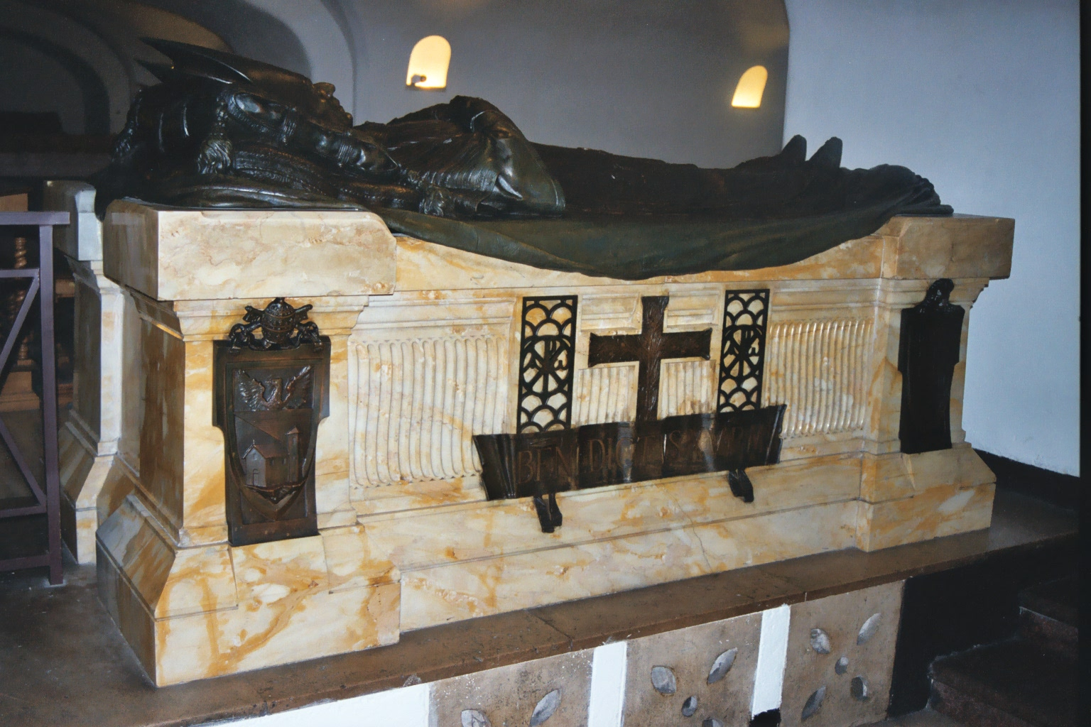 Tomb of Pope Benedict XV in the Papal Grotto in St. Peter's Basilica in Rome